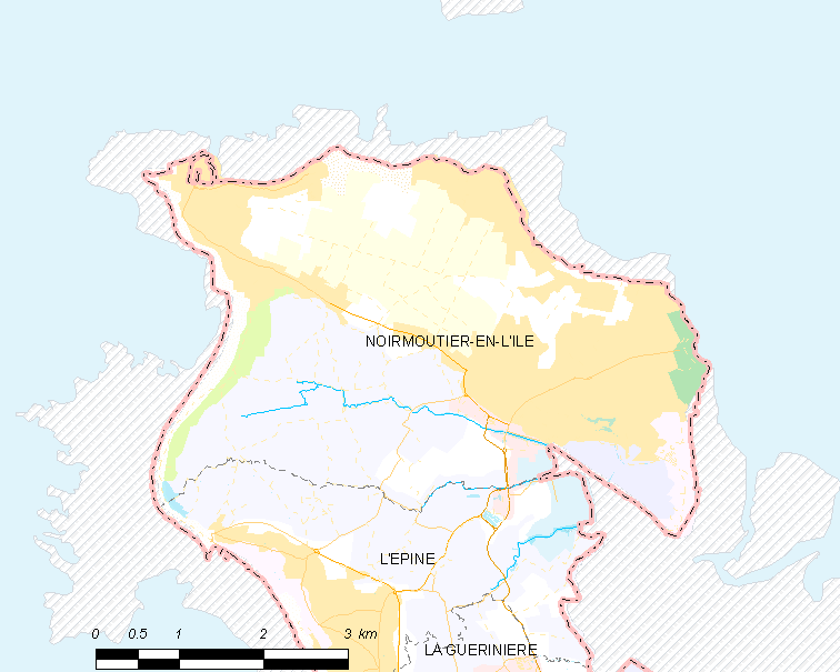 Map of French municipality Noirmoutier-en-l'Île